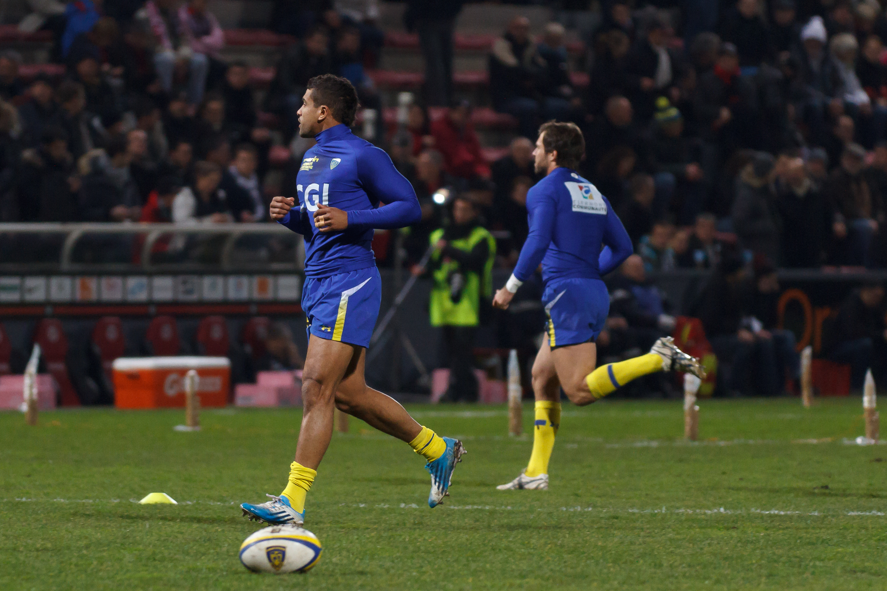 Wesley Fofan and brock James during warm-up session before the match between Stade toulousain and ASM Clermont Auvergne (Top 14), on January 5th, 2014.